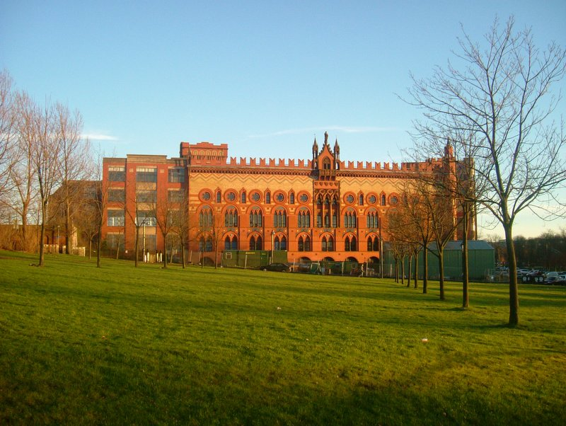 Attractive building next to Glasgow Green, not sure what its used for but I like the styling